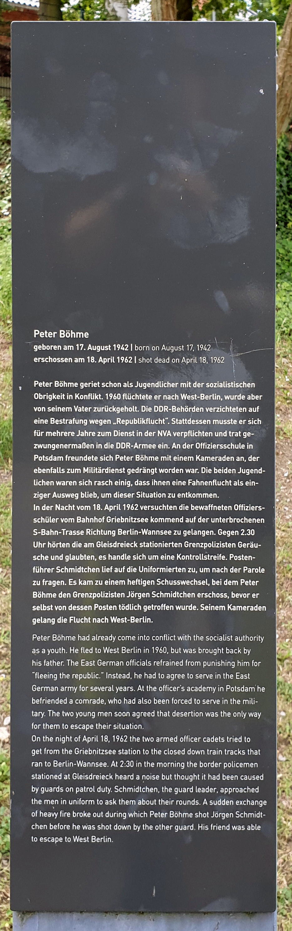 Memorial plaque, Peter Böhme, Stubenrauchstraße 35, Babelsberg, Deutschland